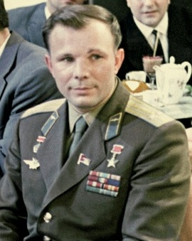 “Gagarin, Tereshkova, Tikhonov and Lyubeznov”. Guests of the Central TV Studio (right to left): Yuri Gagarin, actor Vyacheslav Tikhonov, Hero of the Soviet Union Valentina Tereshkova and people's artist of the USSR Ivan Lyubeznov.